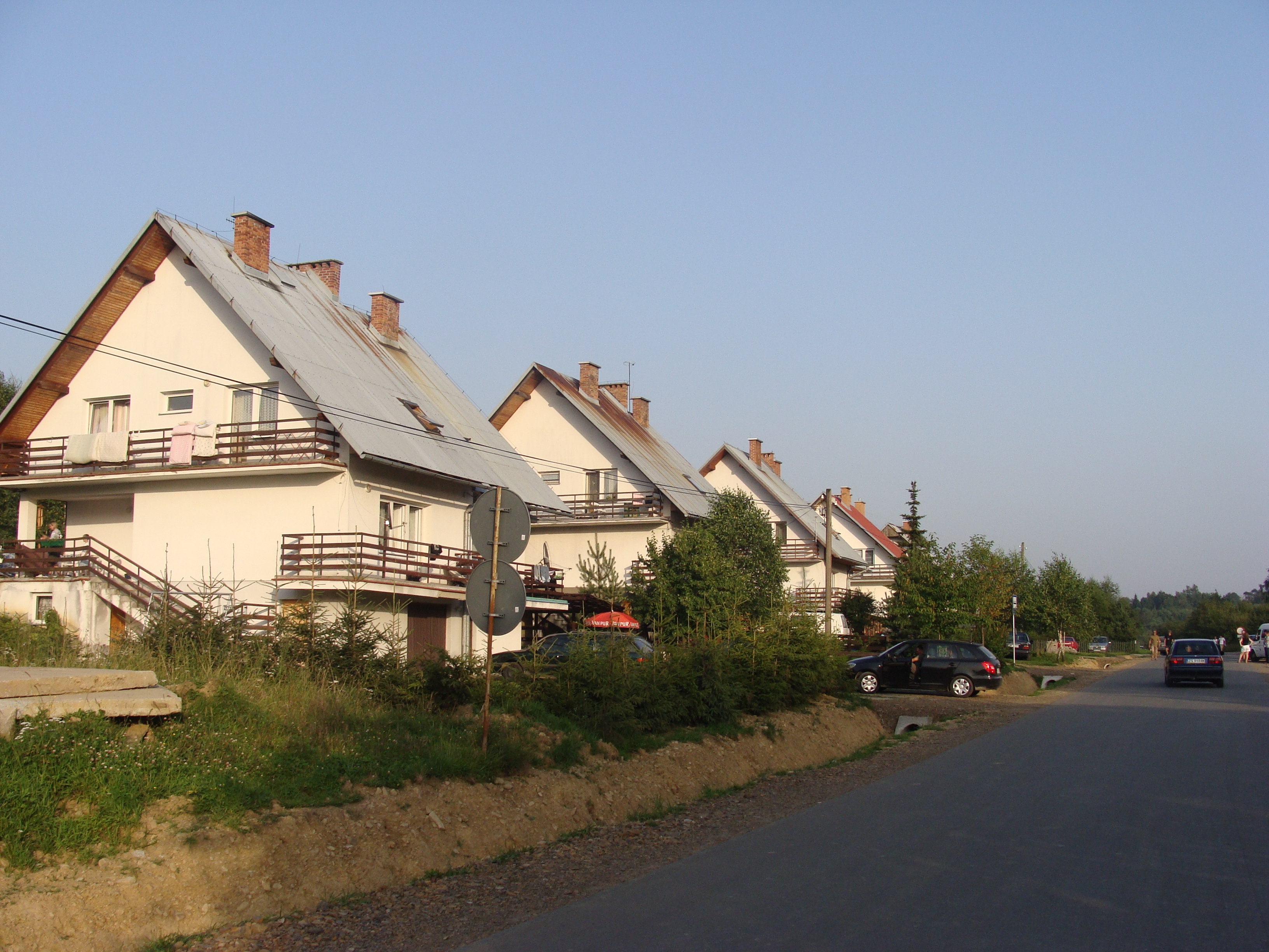 Wołosate, centrum of village, main street. 2008